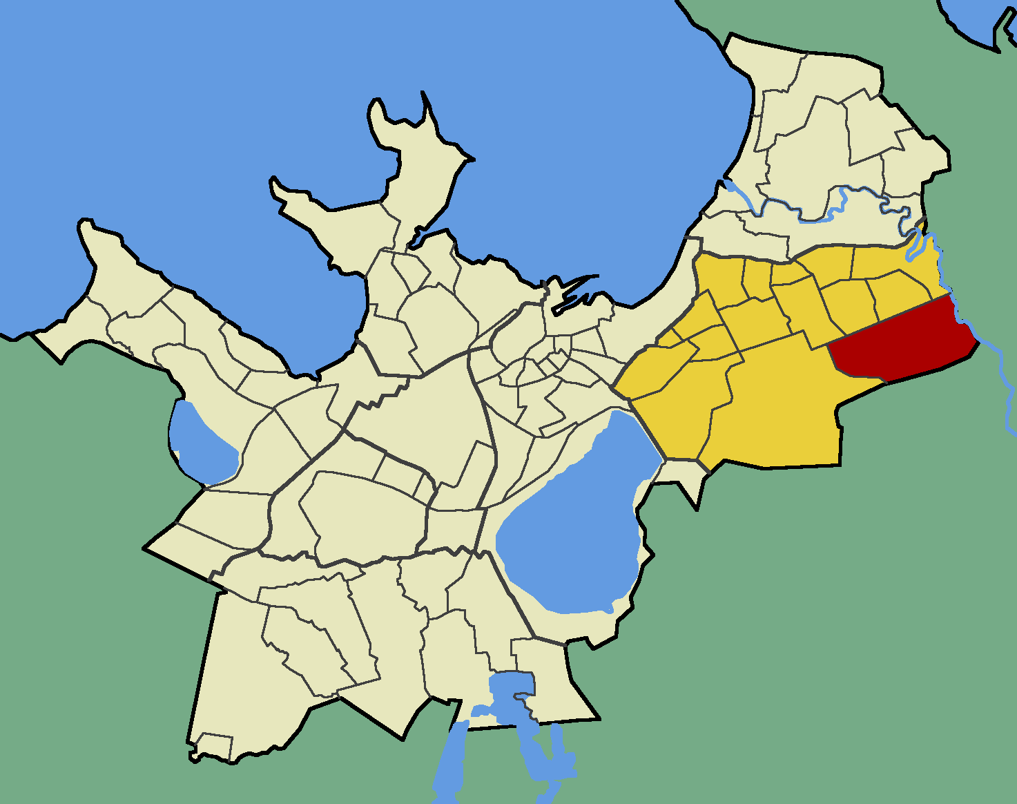 Map of Tallinn (Estonia) with borders of the quarters, Lasnamäe district and Väo quarter emphasised